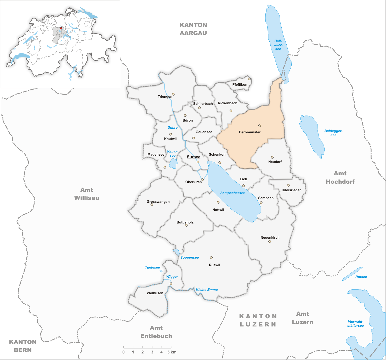 Municipality Beromünster